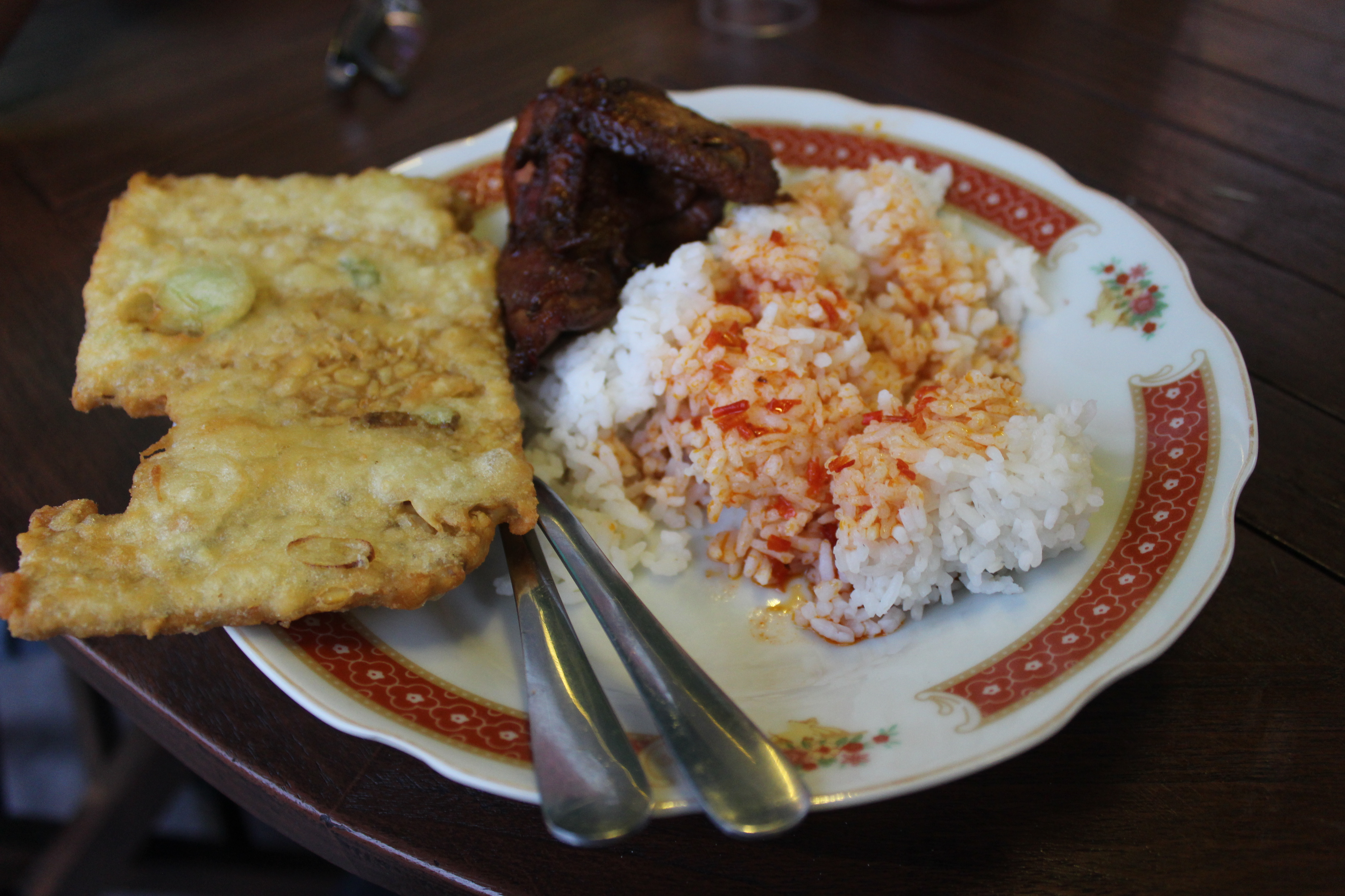 Javanese nasi campur, served with tempe goreng and honey-cooked chicken.